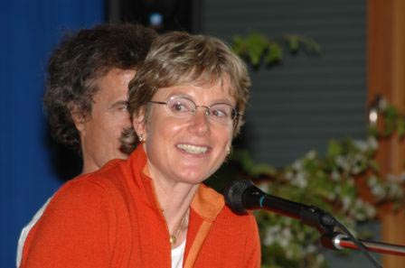 Christine Kopp, Swiss Alpine Journalist, Writer and Translator